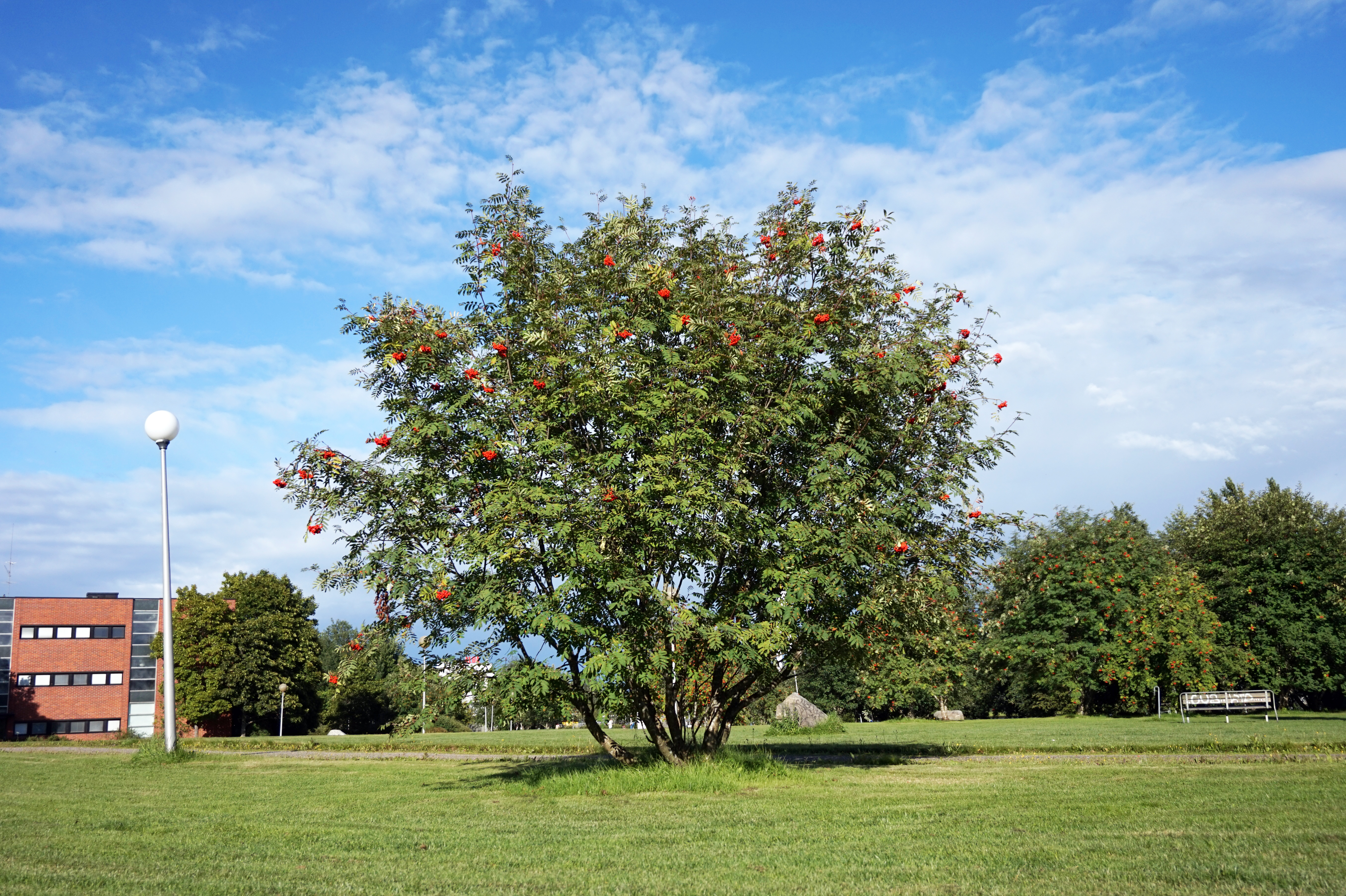 Sorbus aucuparia in Jyväskylä.This photograph was taken with a Sony ILCE-5000